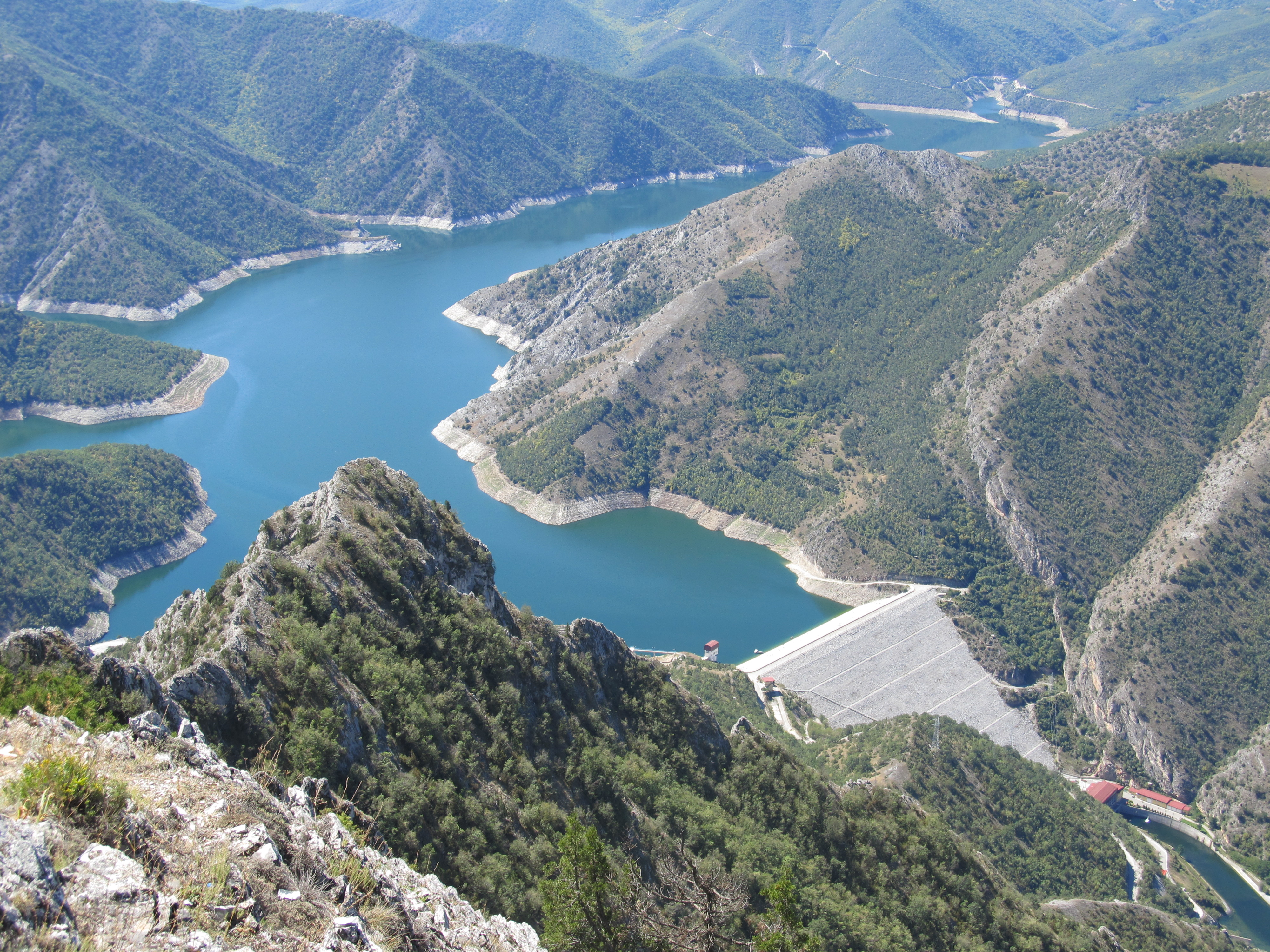 Daily shot - Kozjak with the dam (Kozjak Hydro Power Plant)